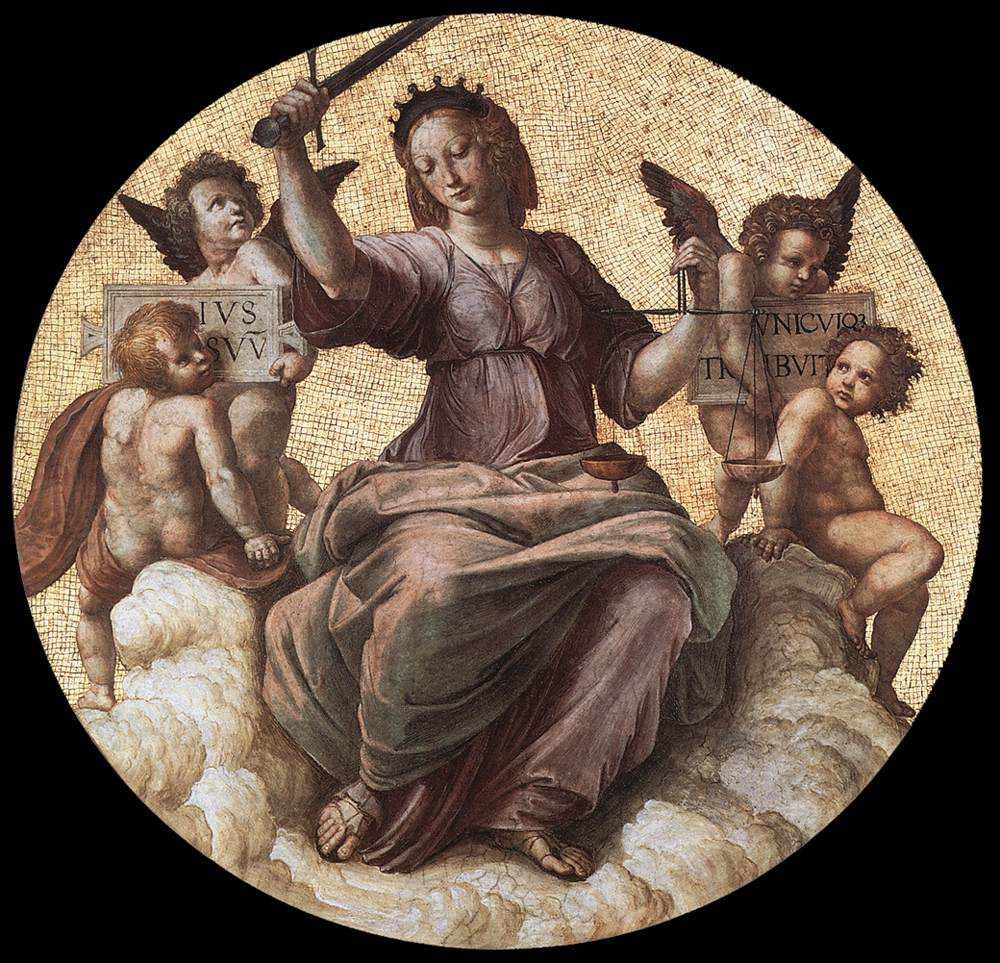 ceiling tondo